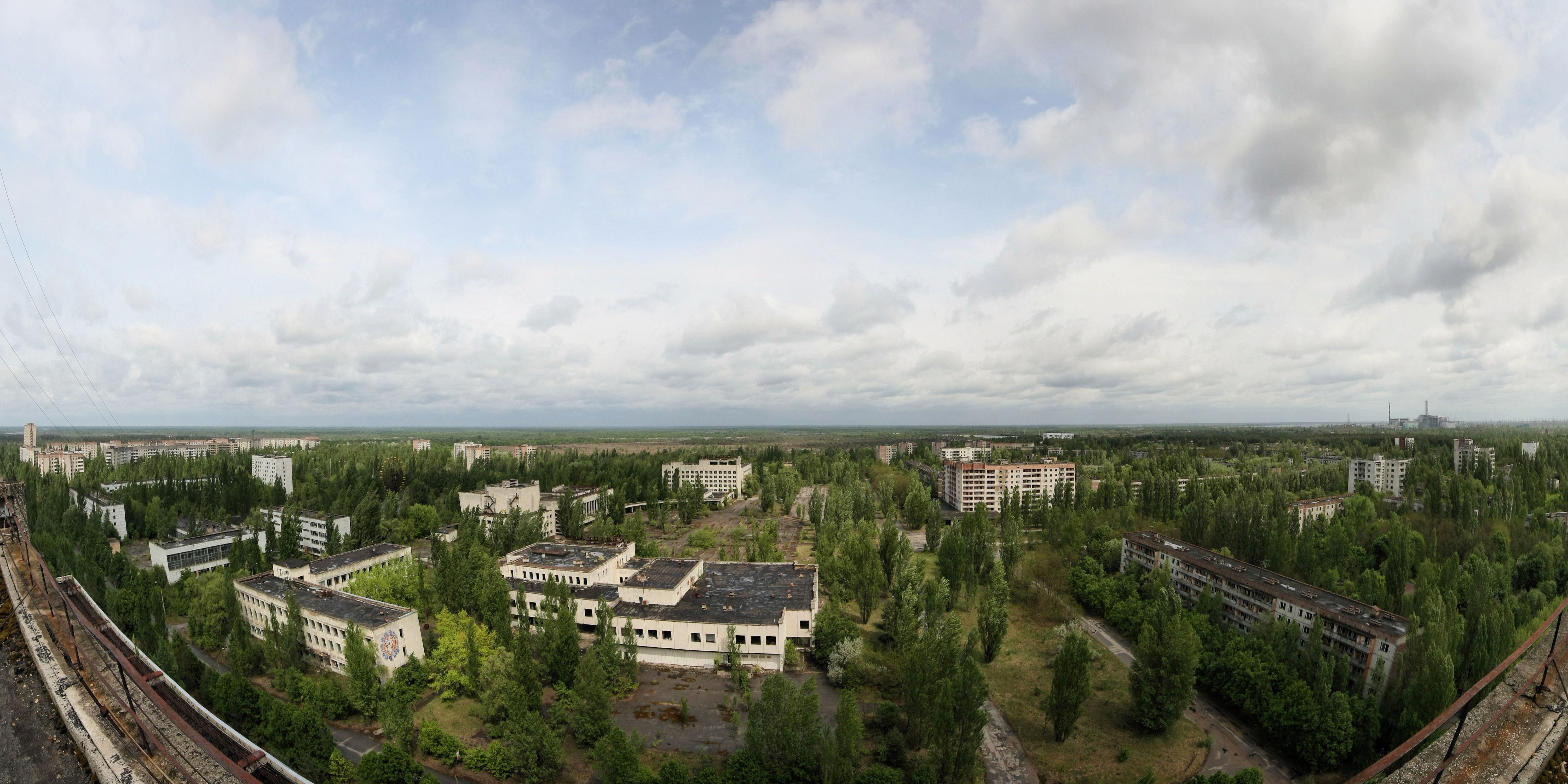 A panorama photo from Pripyat combined of 10 individual photos, taken from the roof-top of a 16 storey building. The Chernobyl Nuclear Power Plant reactor number four with its enclosing sarcophagus can be seen far right.